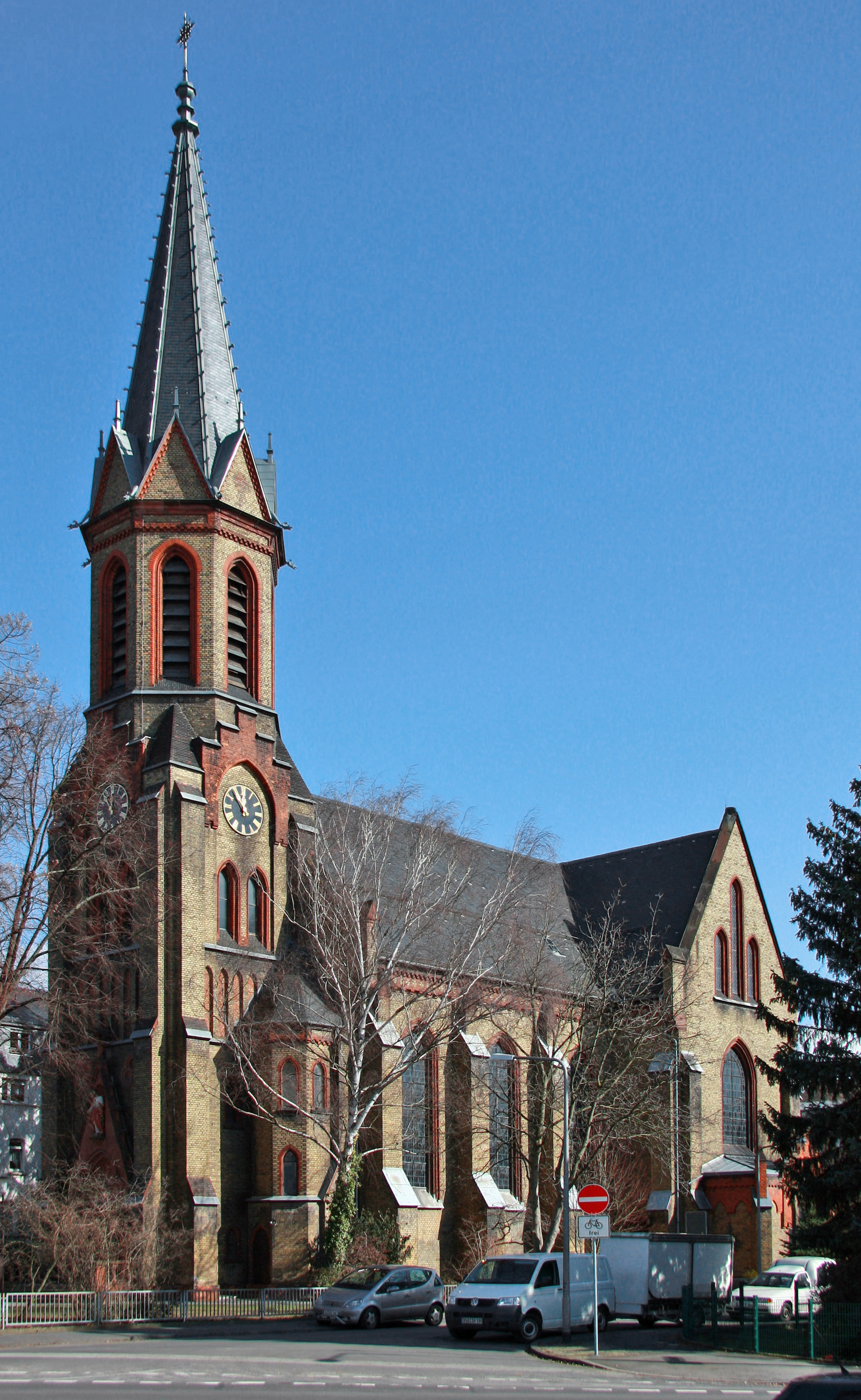 Church of the Sacred Heart in Wiesbaden-Biebrich